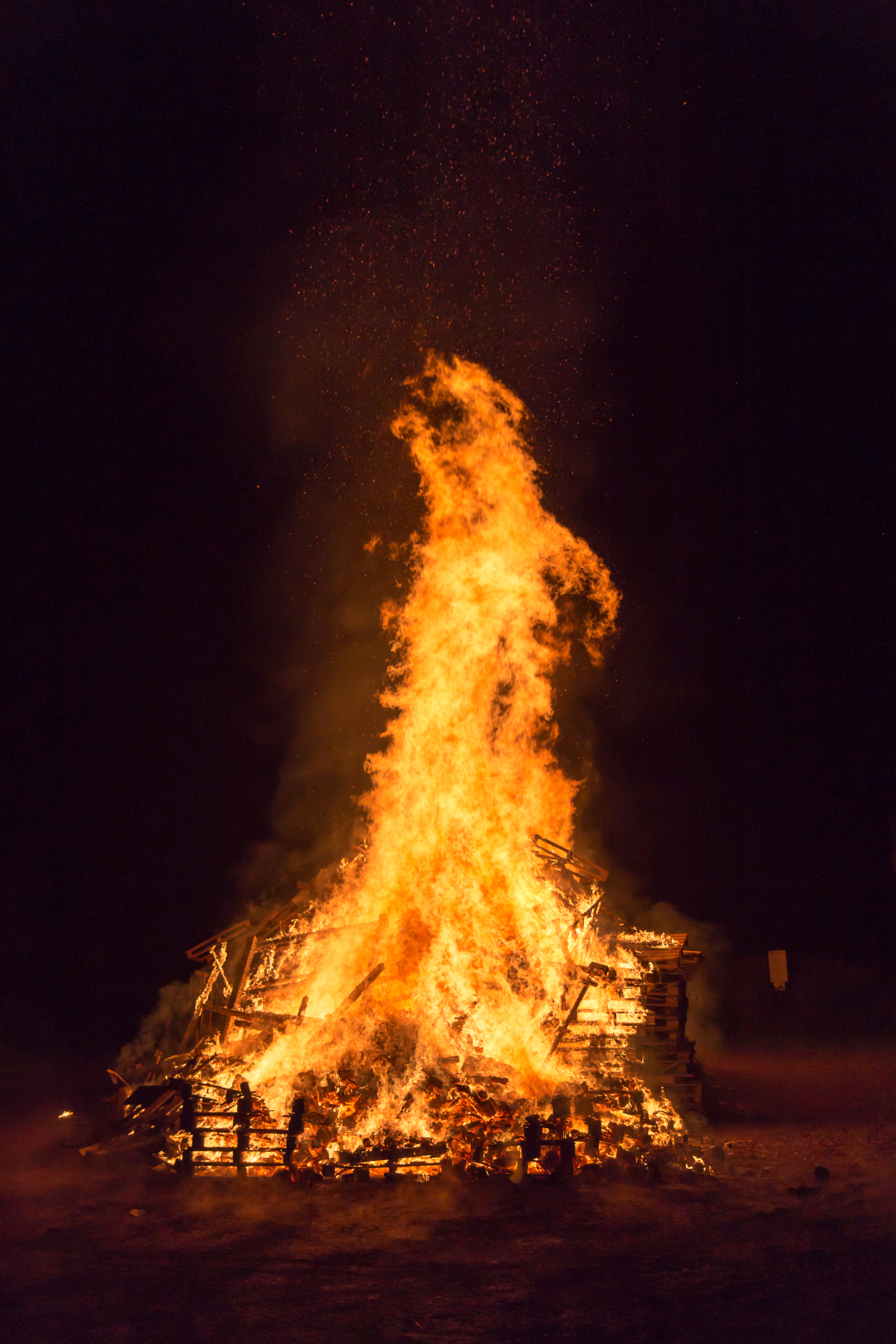 St. Martins fire in Mülheim-Kärlich, Germany